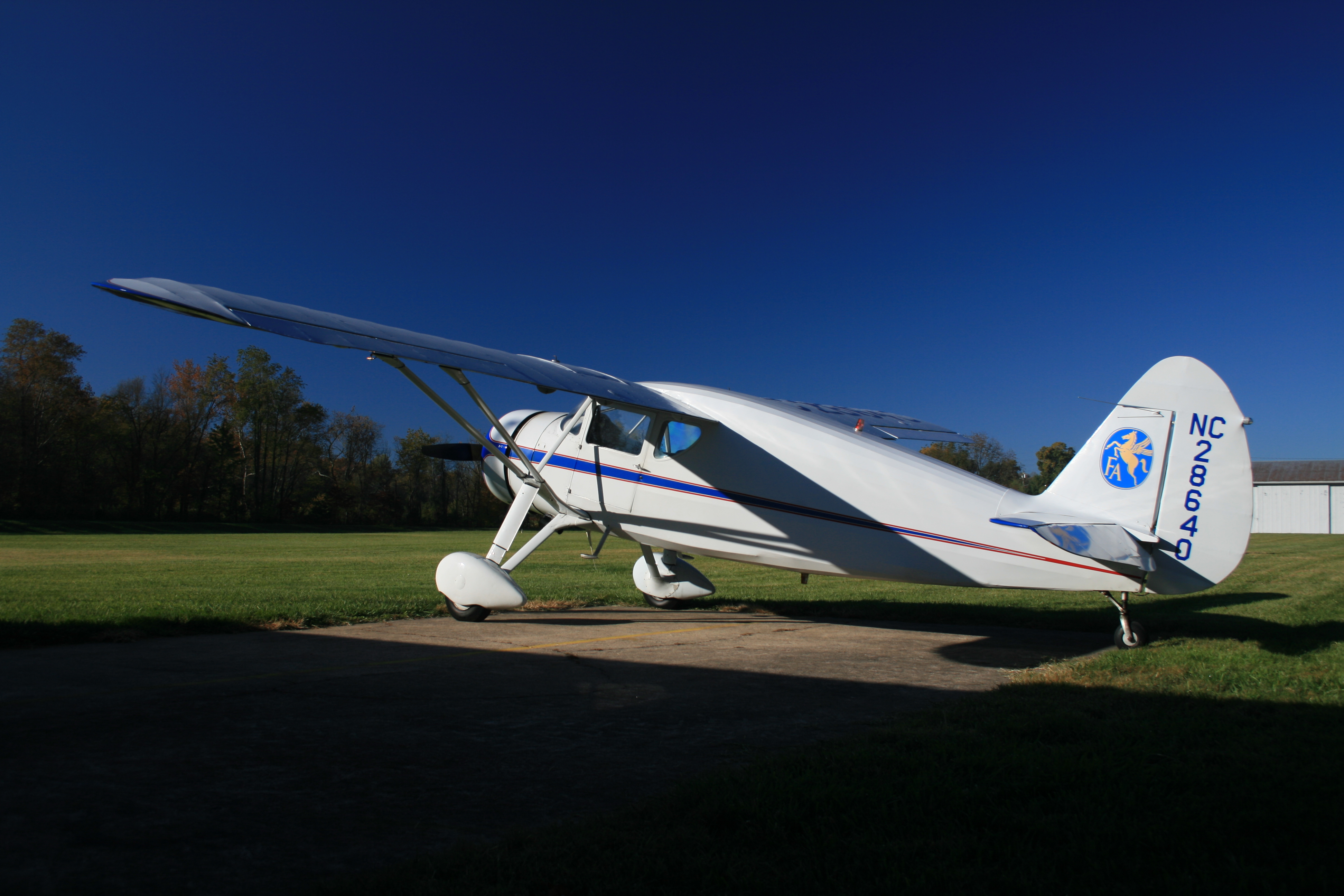 A morning photograph of a Fairchild 24W-40 at the Silver Creek Airport in Morganton, NC.